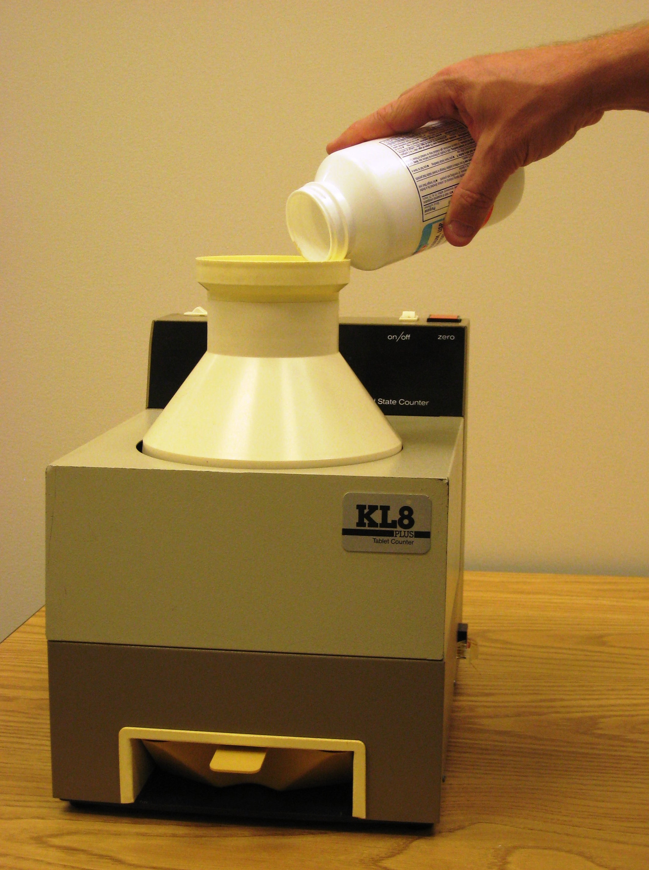 Kirby Lester KL8, an early tablet counting device from the pharmacy automation company.